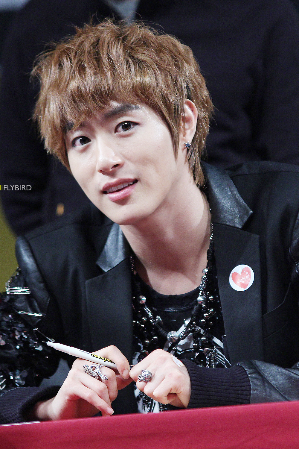 Seo Minwoo at 100% Fansign Event in October 28